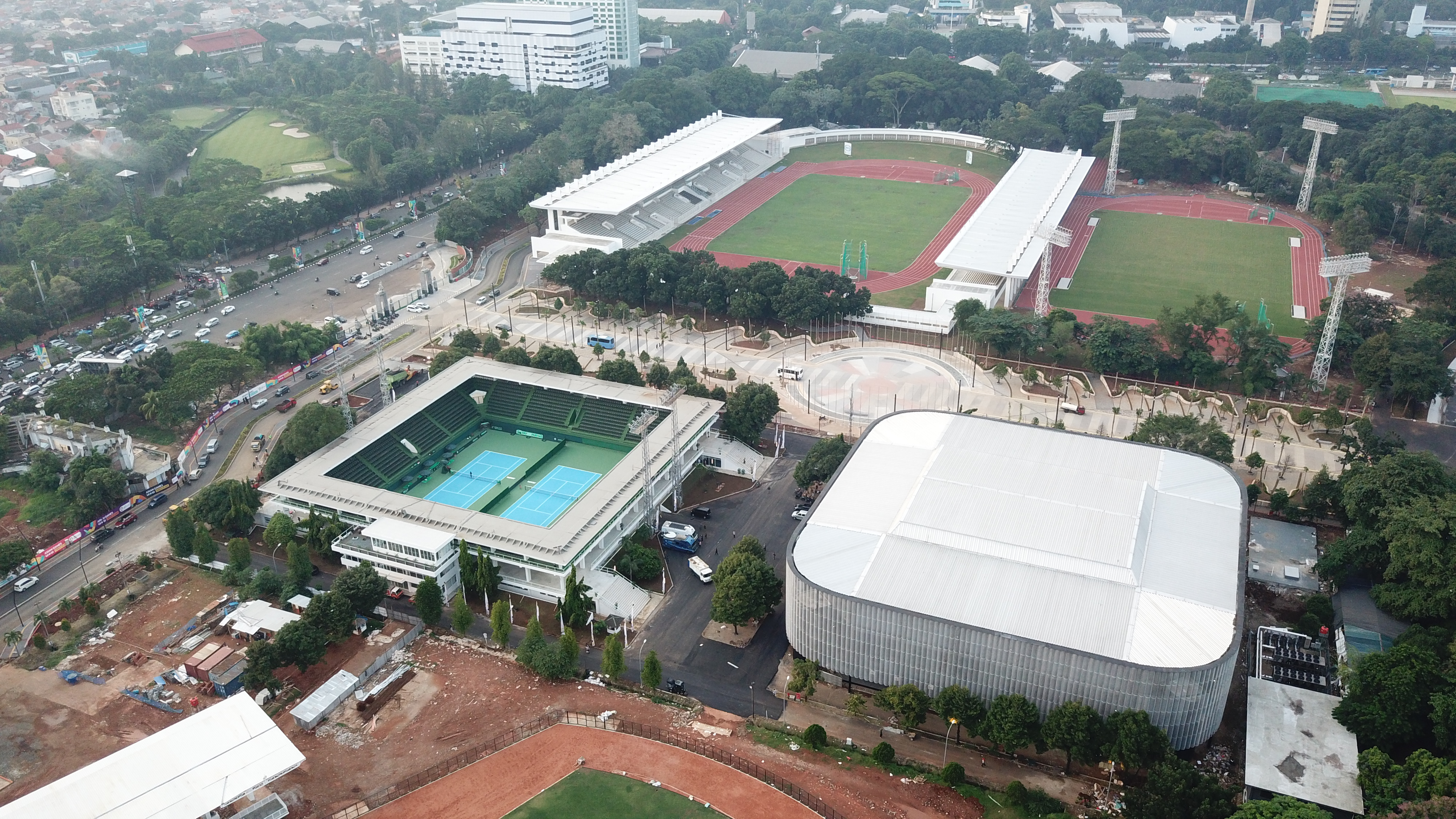 Gelora Bung Karno's Madya, Tennis Indoor, and Tennis Outdoor Stadiums